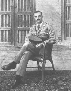 Sir Arnold Wilson, the British civil commissioner in Baghdad in 1918-1920.